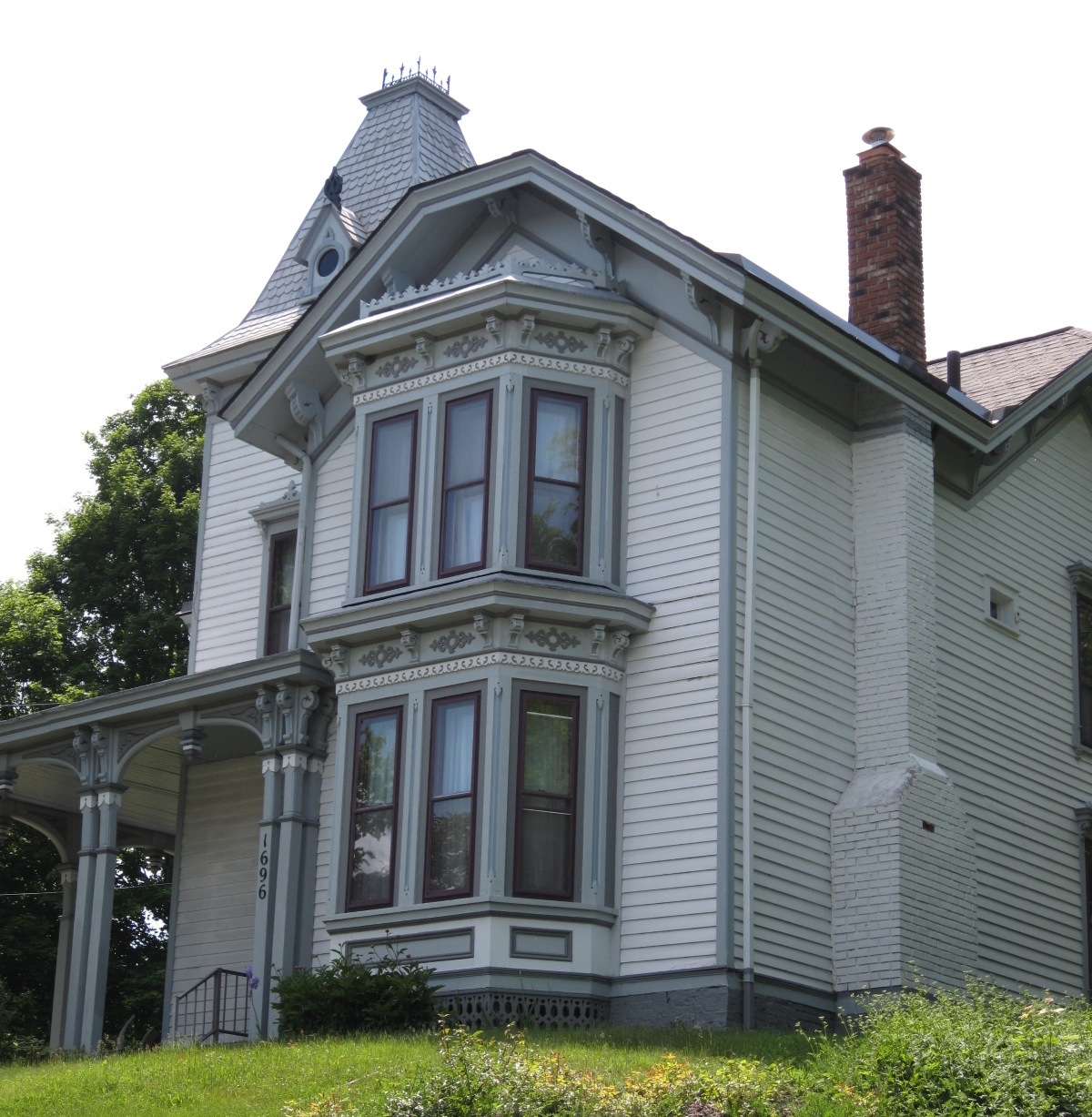 Also known as “The Grey Barn”, this home was built in 1876 in the Victorian Eclectic style. It is the only intact historic structure in the northern section of the village.